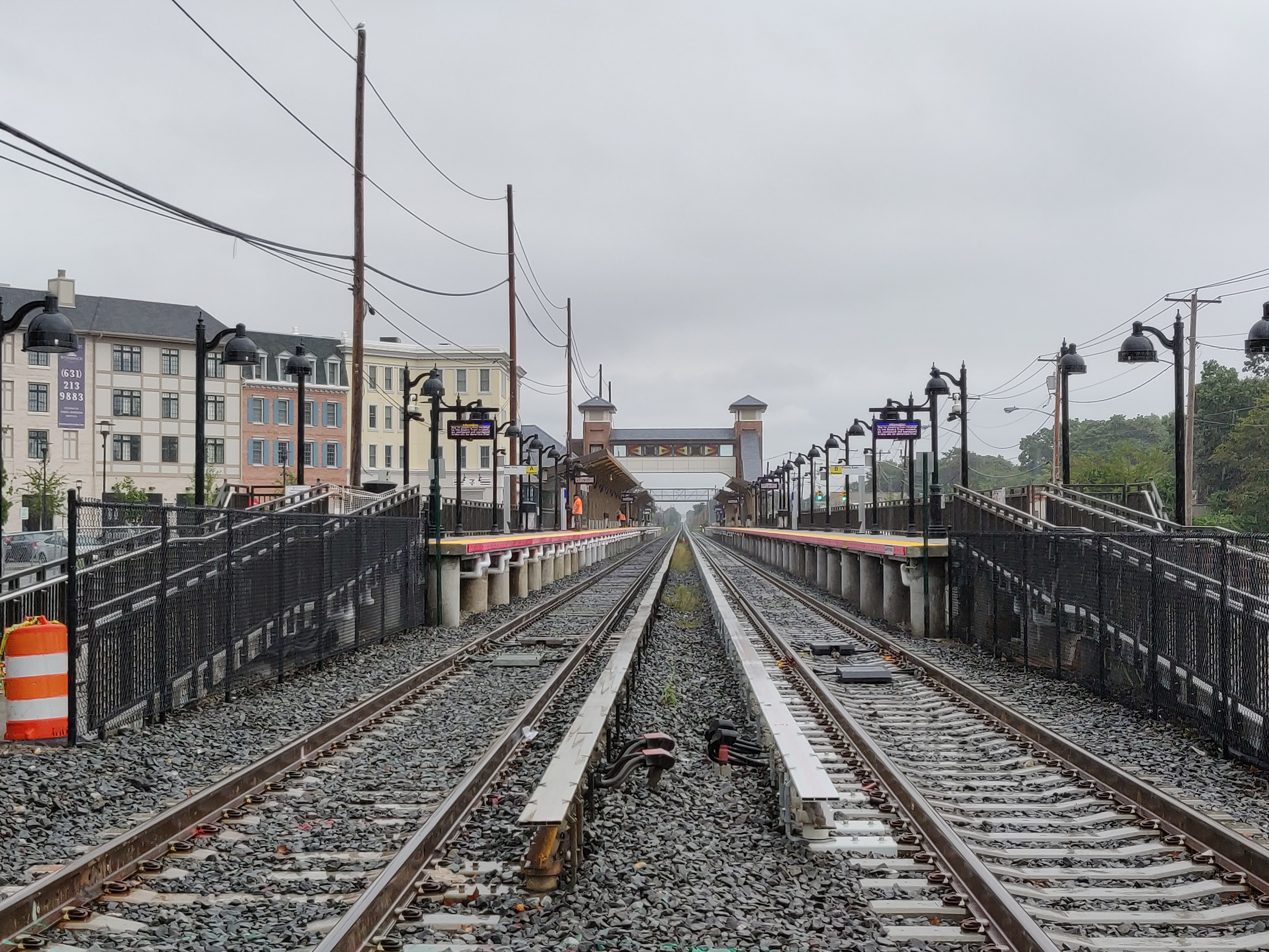 A view of the Long Island Rail Road Wyandanch station platforms from track level, from the rail road crossing on "Straight Path" between Merritt Avenue and Long Island Avenue, facing east.